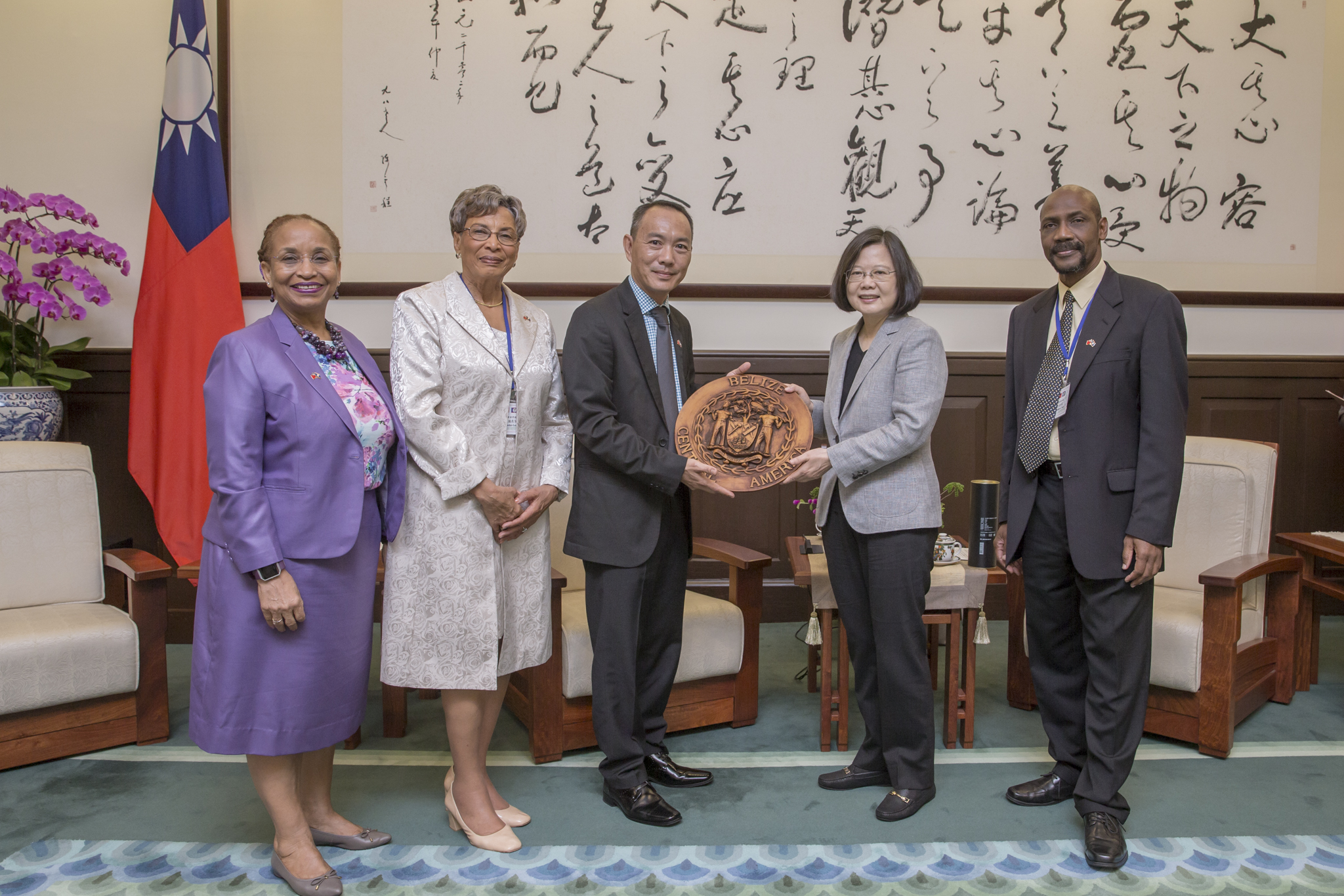 Authorization Method & Scope: Office of the President, Republic of China (Taiwan)│Government Website Open Information Announcement